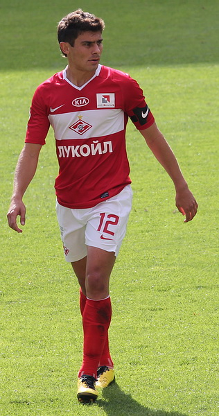 Alex Raphael Meschini